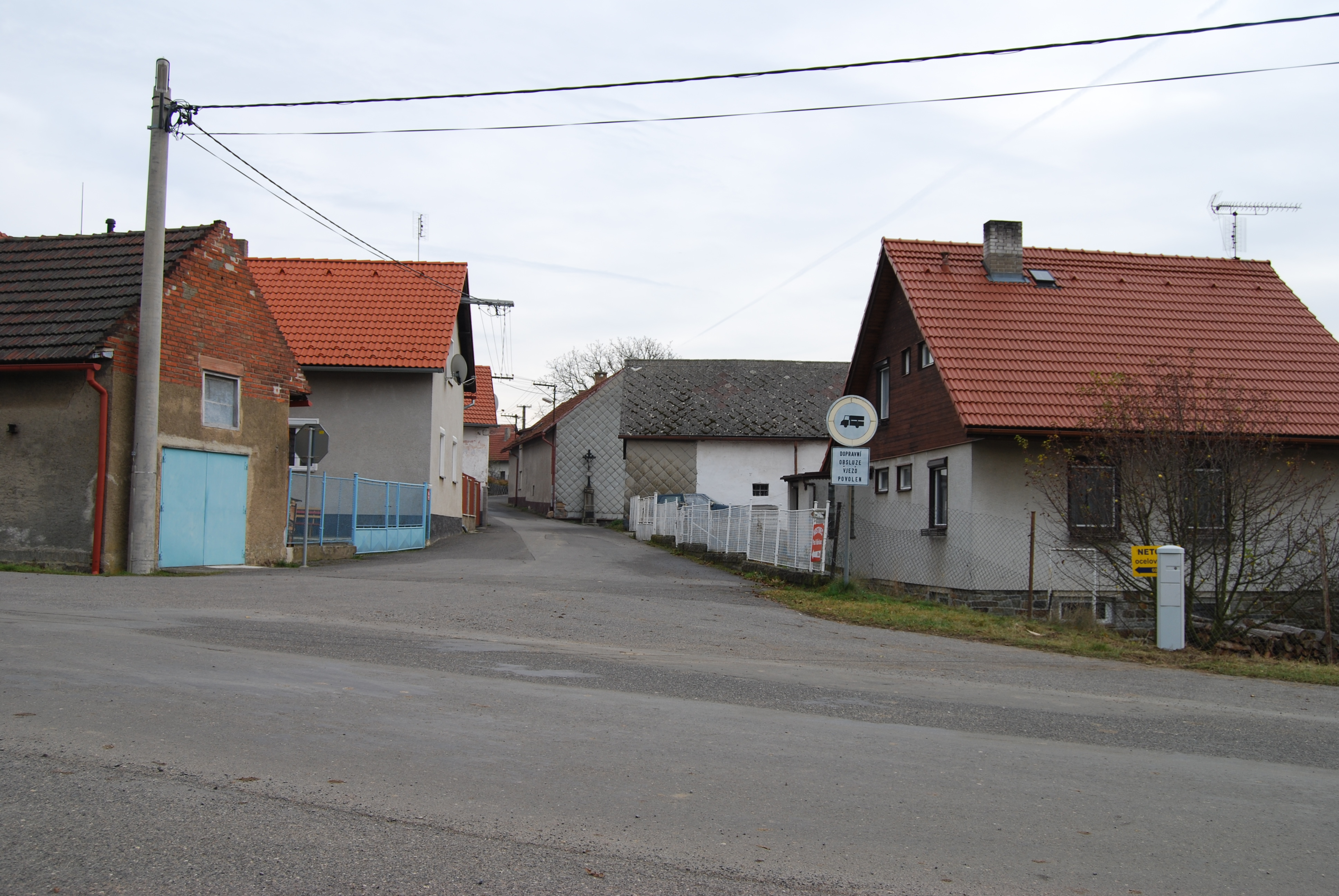 Sedlice village in Příbram District, Czech Republic.